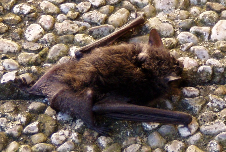 Myotis (mystacinus or brandtii)/Bartfledermaus, most probably M. mystacinus; photo taken in Carinthia.